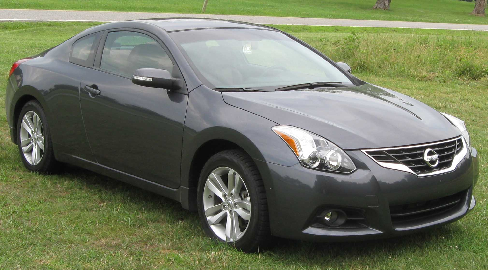 2010 Nissan Altima photographed in Marshall Hall, Maryland, USA.